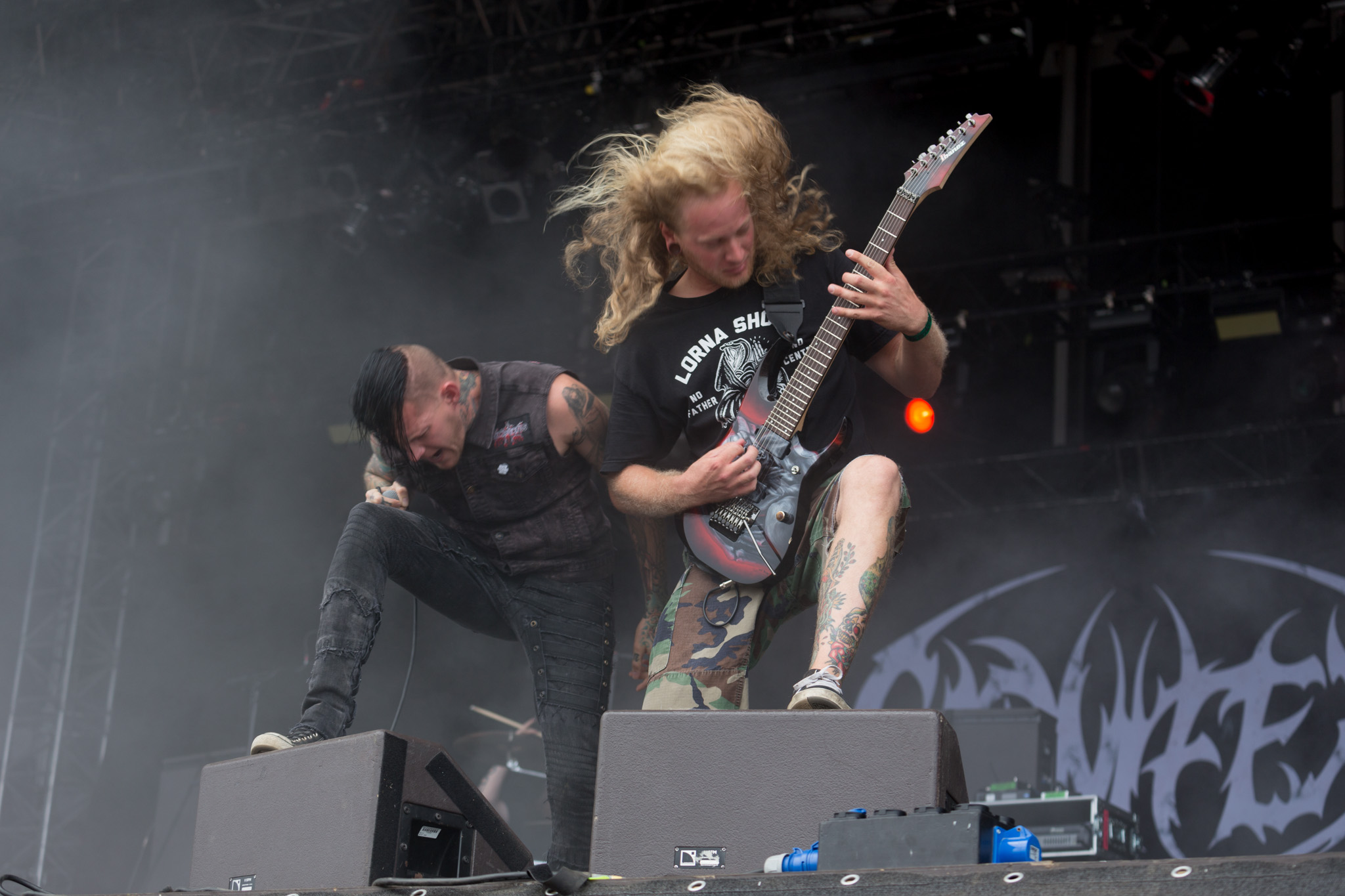 Carnifex playing on the With Full Force Festival, July 2014